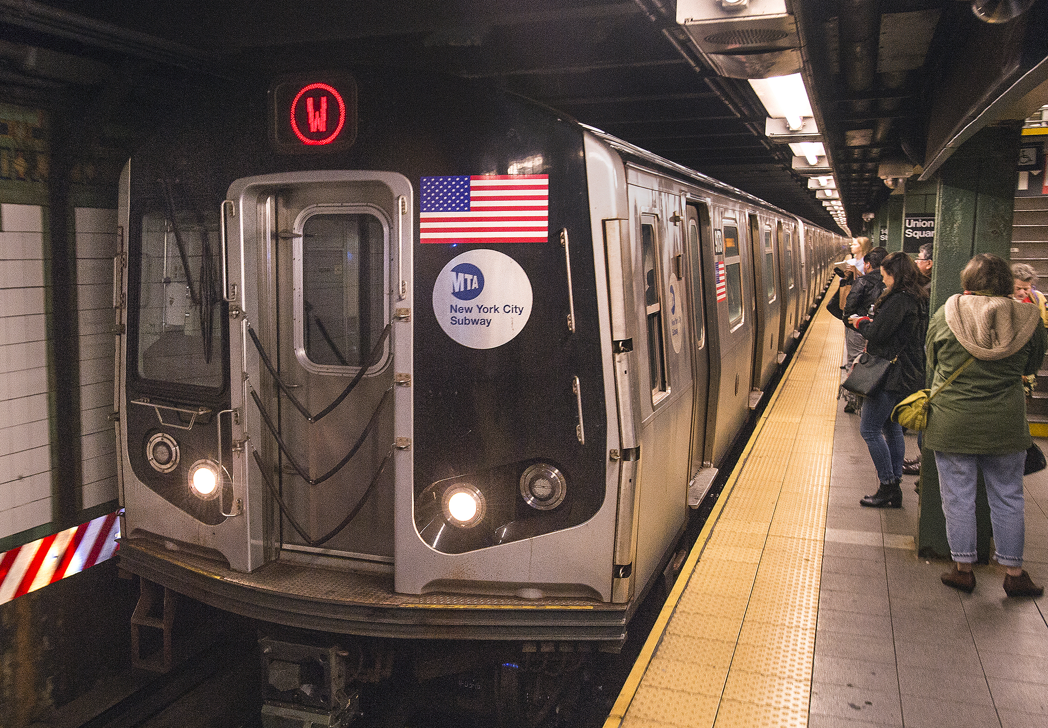 W train at Union Square station